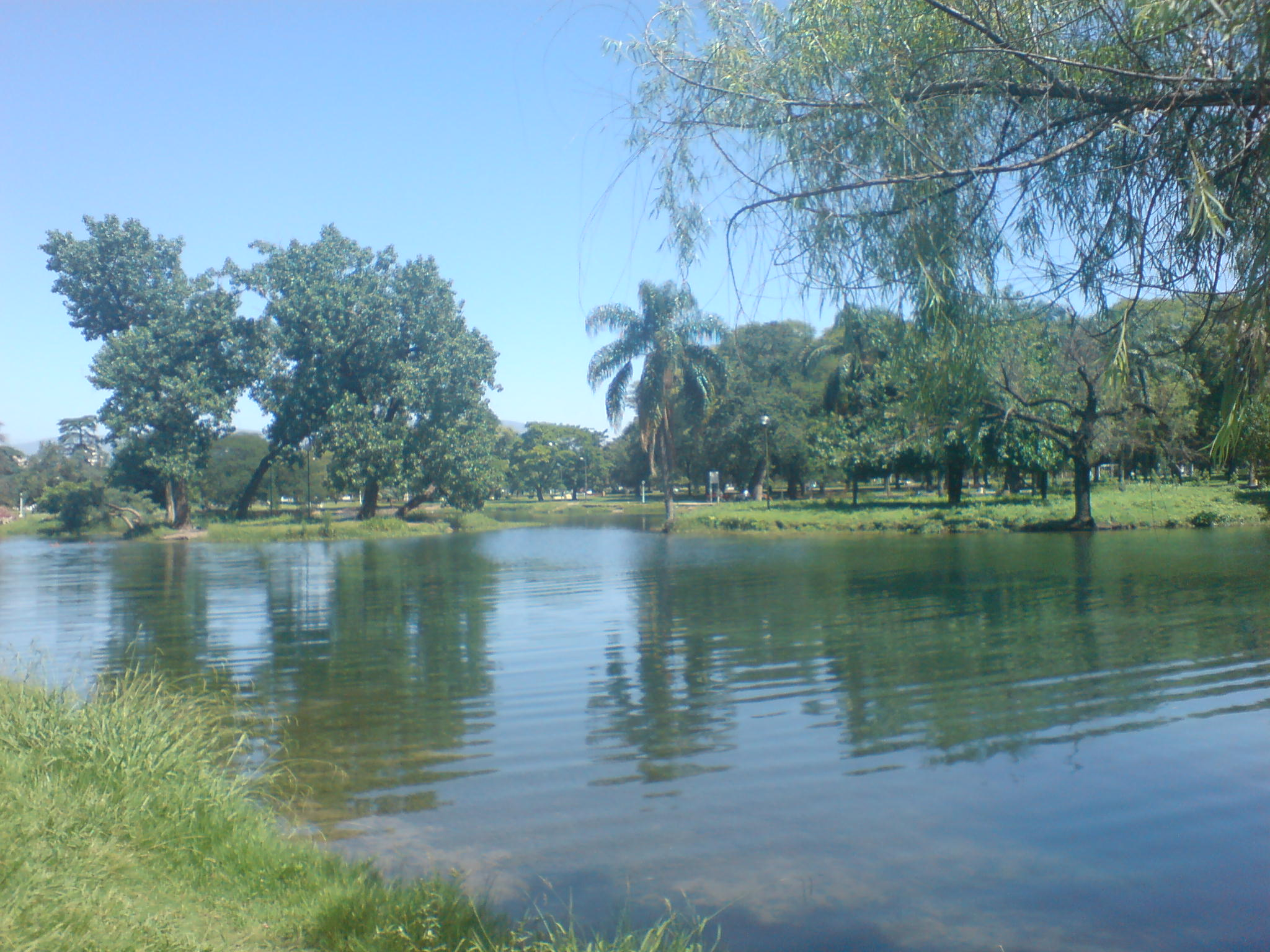 Lake San Miguel in the Ninth of July park in San Miguel de Tucumán, Argentina